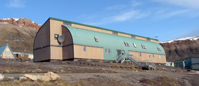 by Technicalglitch